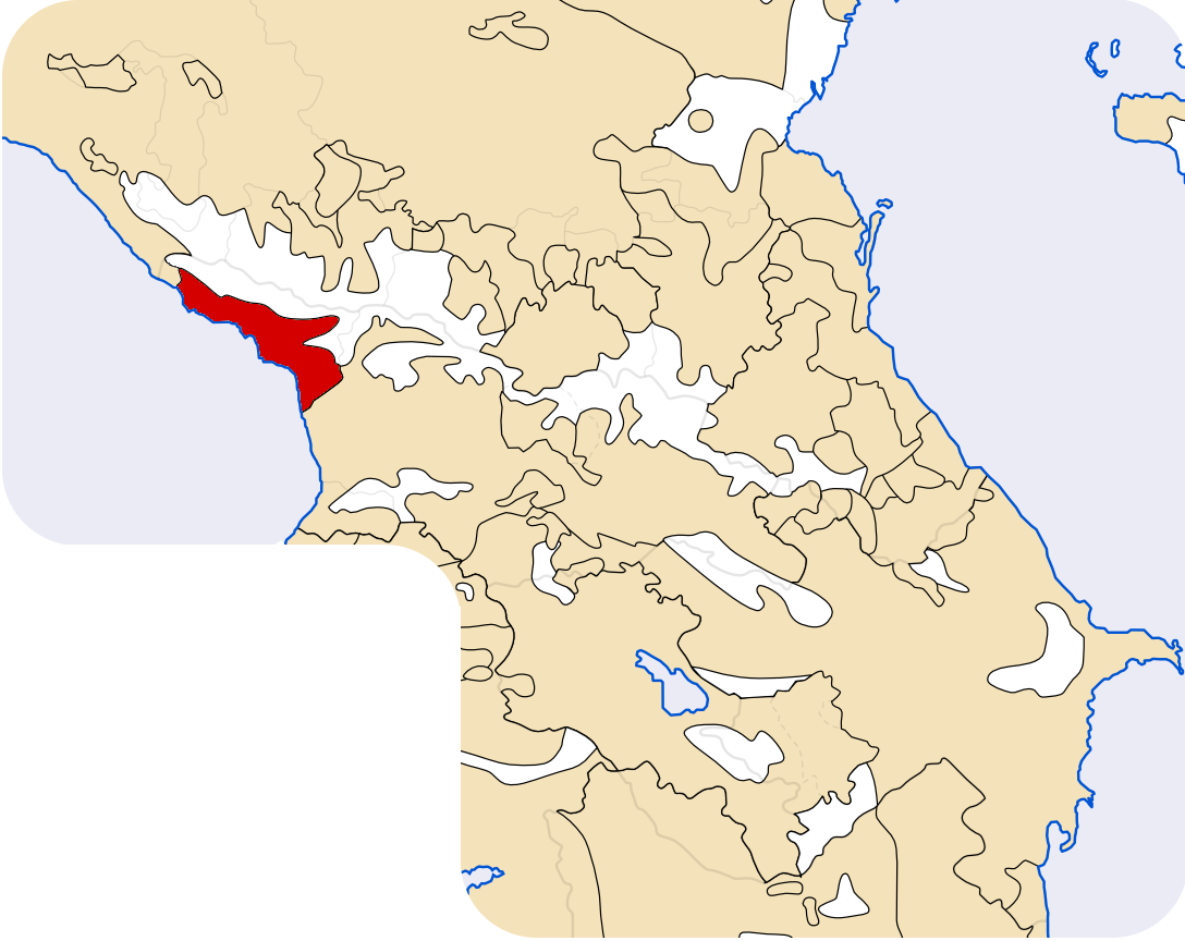 Location map of the people.